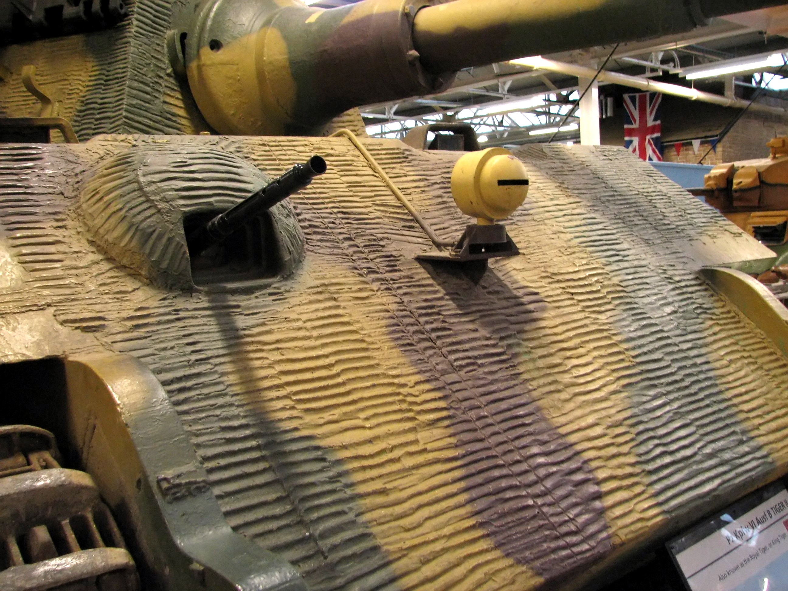 Close-up of Zimmerit on a Tiger II at Bovington Tank Museum